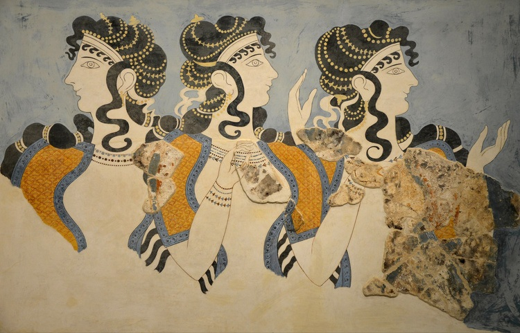 Image of the fresco, "Ladies in Blue", from the Palace of Knossos on the island of Crete. It depicts women with hairstyles similar to the modern ponytail and has been dated to as far back as 1600-1430BCE. Fragments of this frescoe was discovered by Sir Arthur John Evans at the start of the 20th century. It was then recreated by Swiss artist and archaeologist Émile Gilliéron. However, the validity of his reconstructions has long been debated. The fragments are preserved in the Archaeological Museum of Heraklion, Crete.